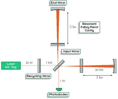 Optical scheme of the Virgo detector.